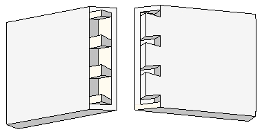 The secret mitred dovetail hides the dovetail from view in both the inside and outside corners.